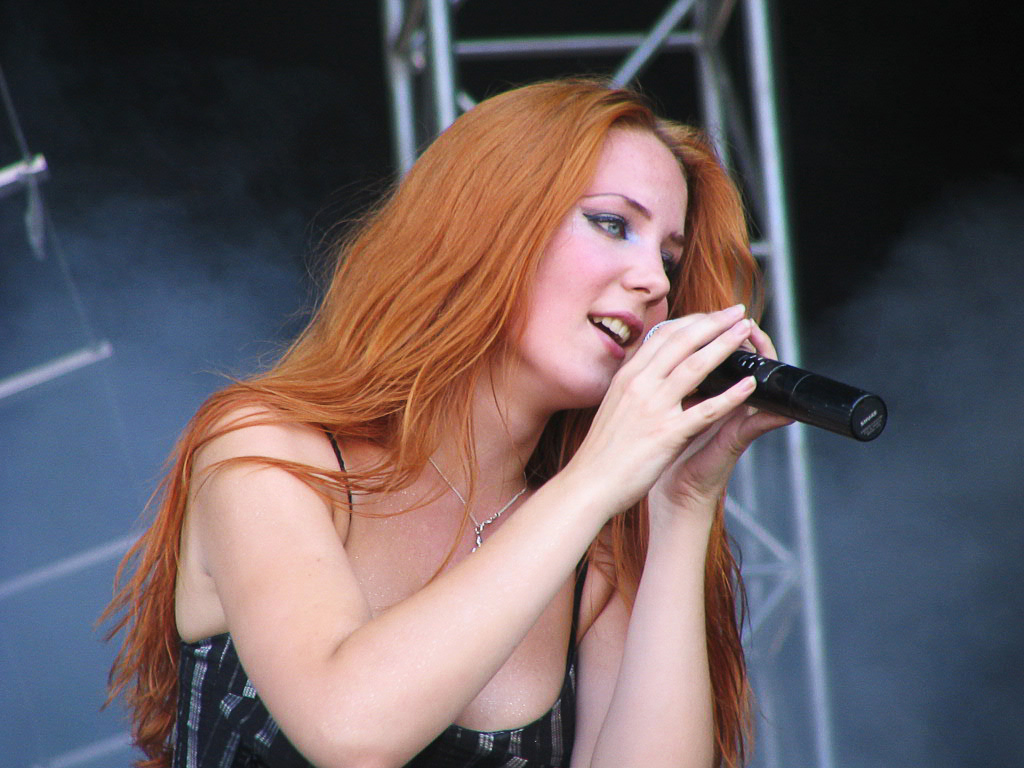 Epica's Singer Simone Simons at M'era Luna 2004 in Hildesheim, Germany.